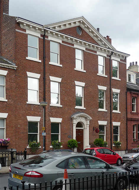 8 Park Square, Leeds